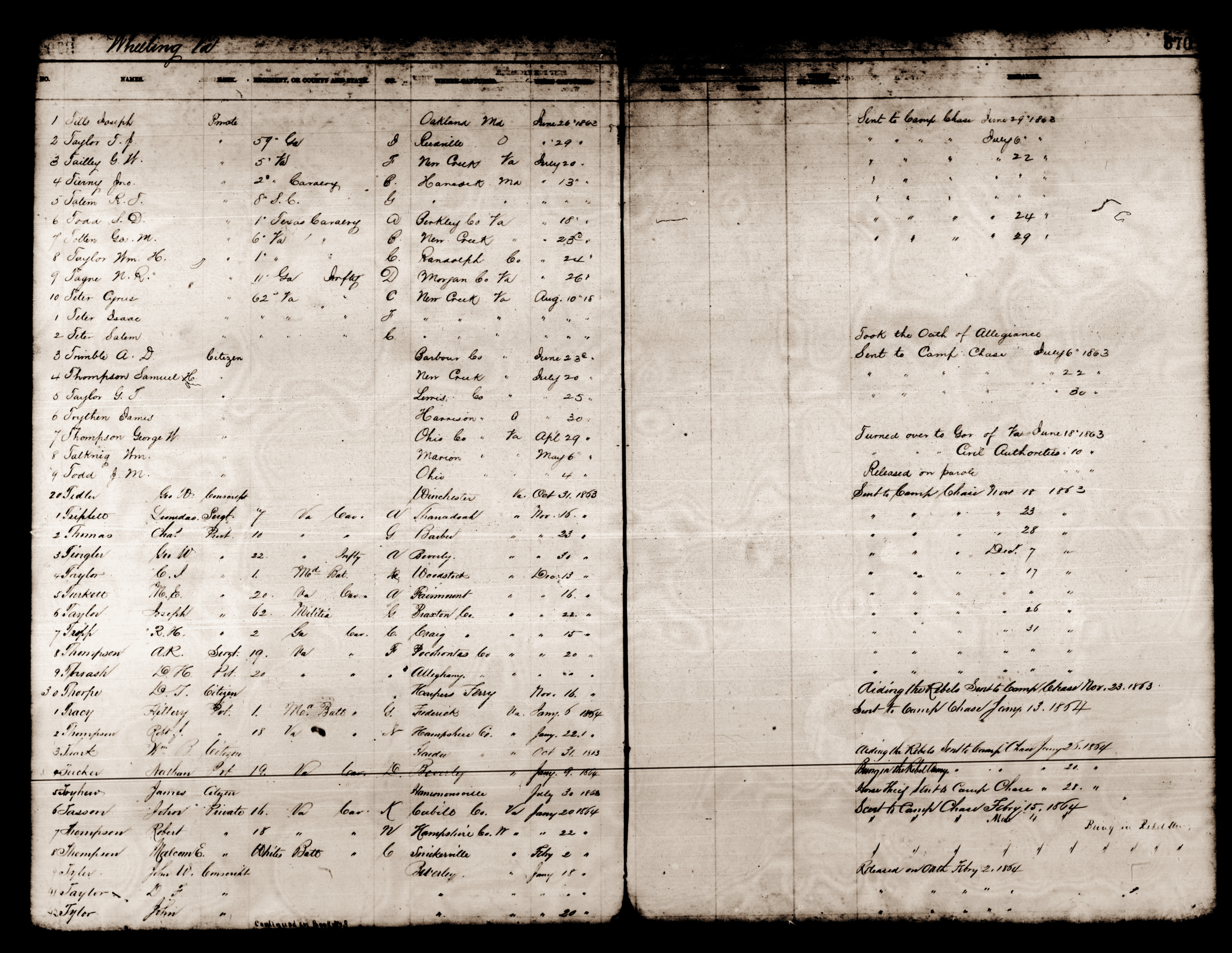 Two pages from the prisoner register for the Atheneum Prison in Wheeling, Virginia, of Confederate civilian and military prisoners from 1863.